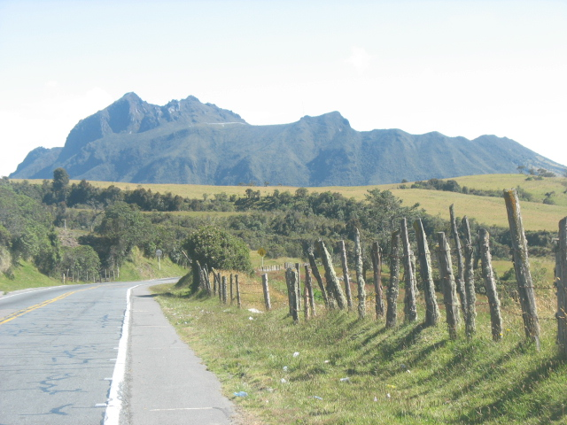 Cerro Bravo volcano at 3700 meters above sea level near Manizales city